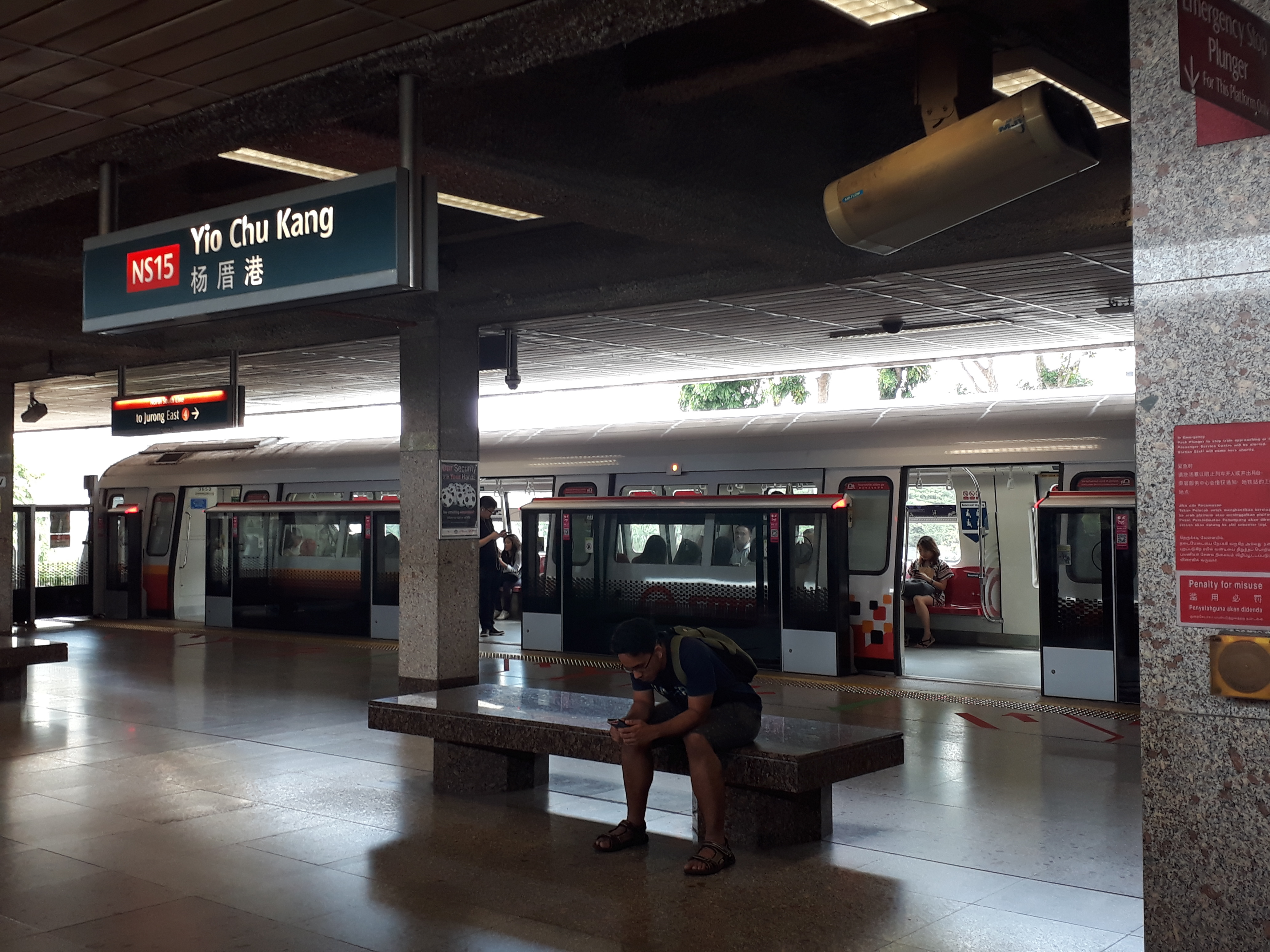 Platform A of Yio Chu Kang MRT